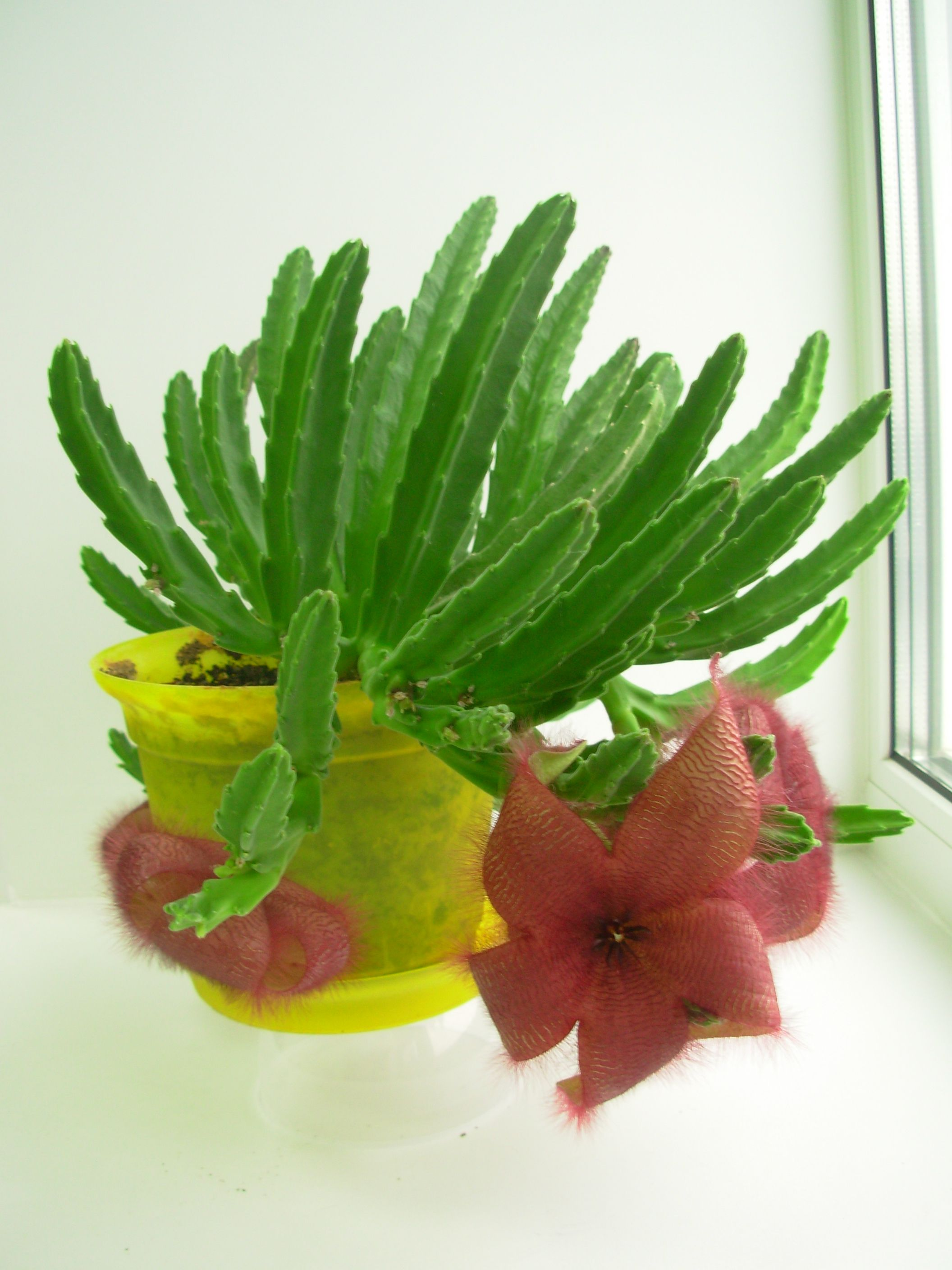 Stapelia gettleffii